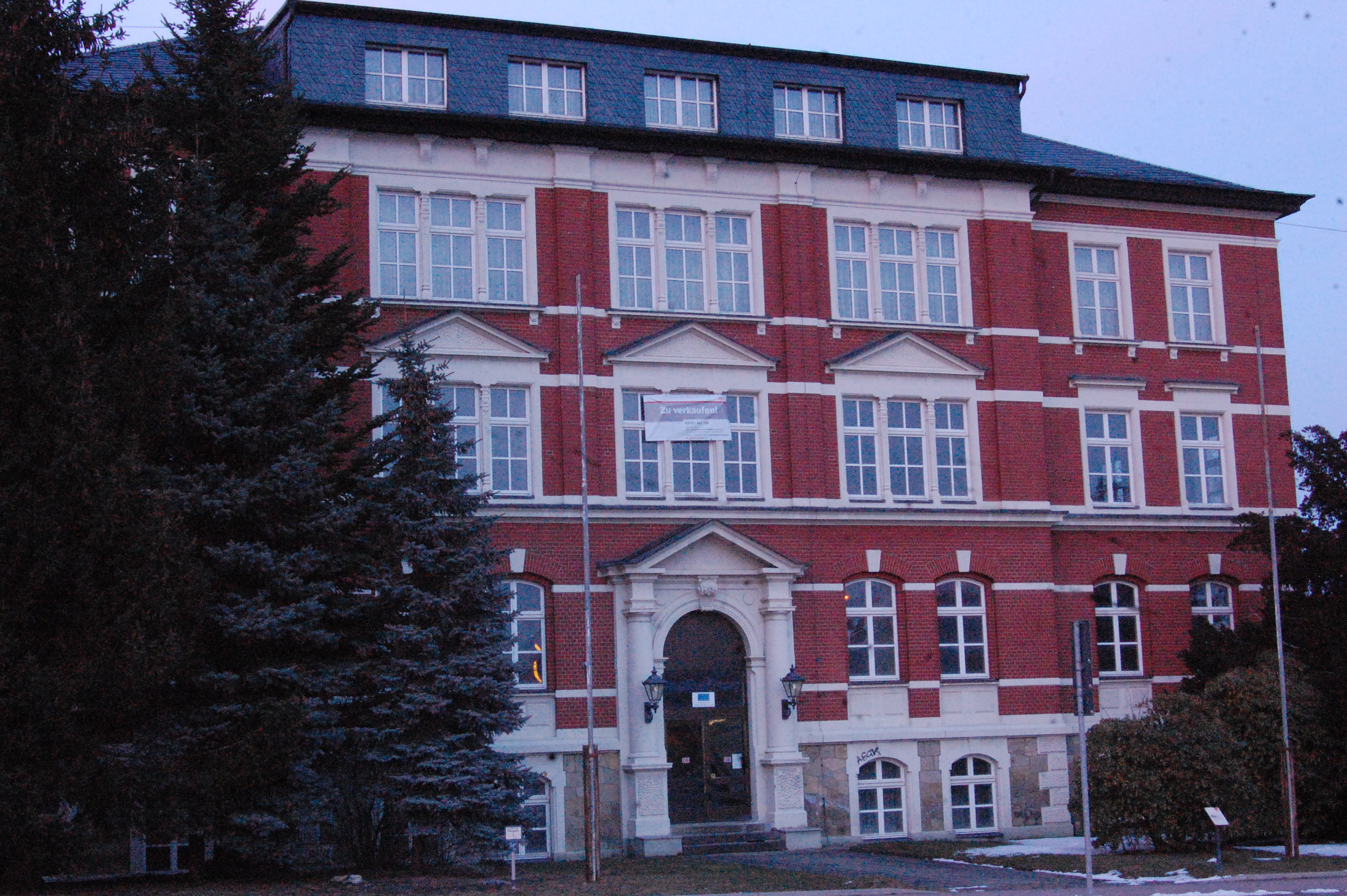 Technical school, Hainichen (Saxony/Germany)